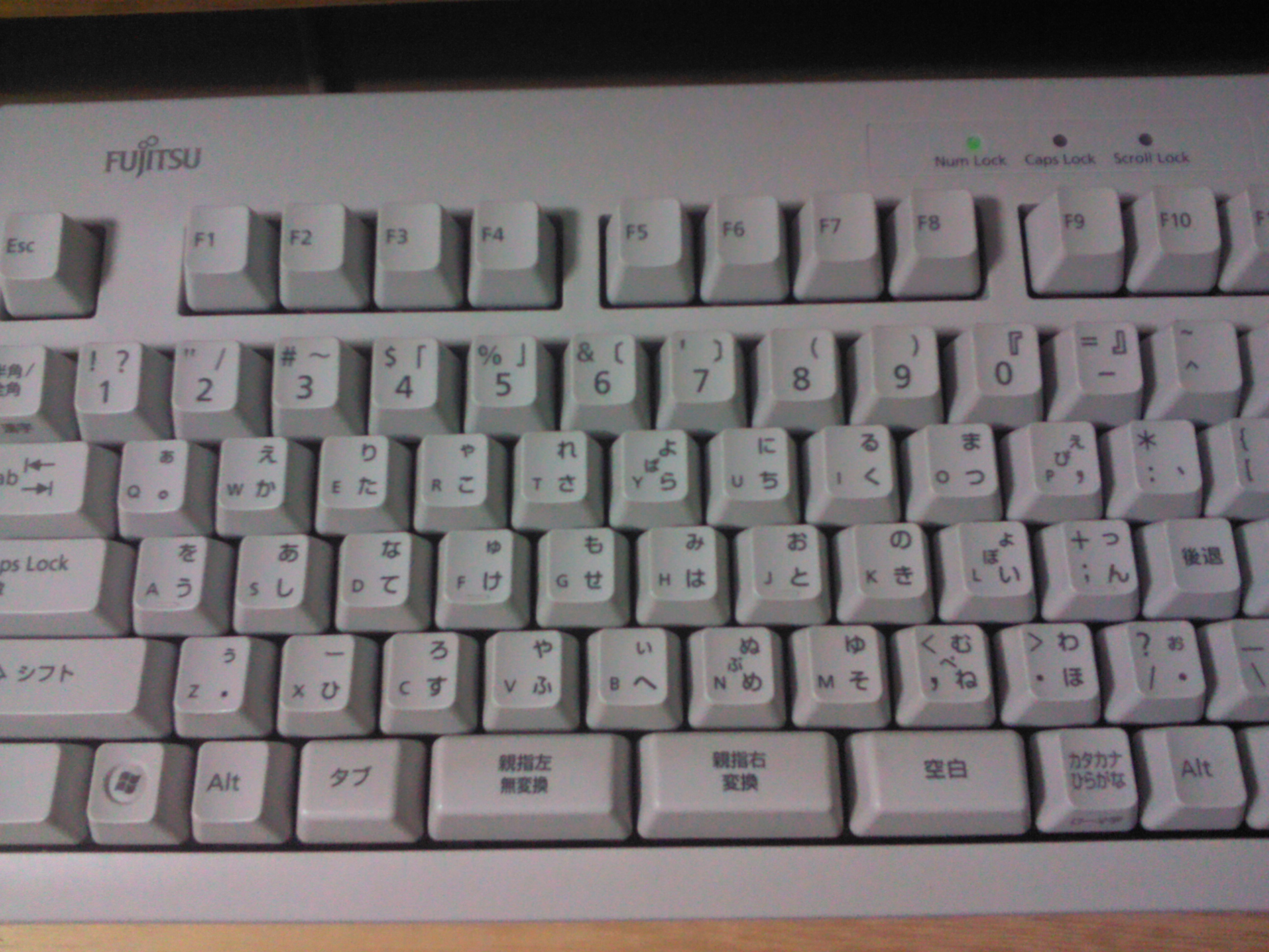 An example of thumb-shift keyboard. Fujitsu FMV-KB232